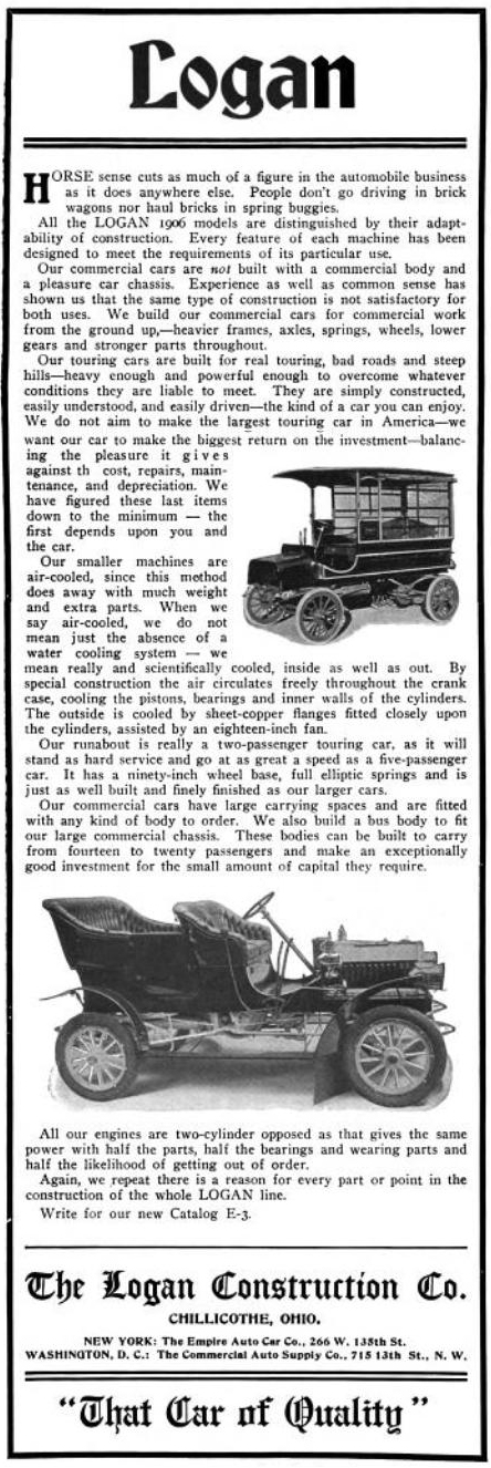 Logan Construction Company - Chillicothe, Ohio - 1906